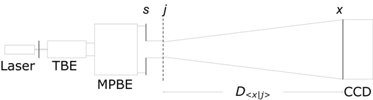 Diagram of N-slit interferometer